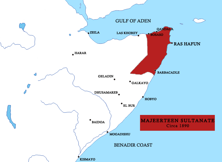 Map of Majeerteen Sultanate in East Africa (modern day Somalia), circa 1890. Based on description in The Collapse of The Somali State: The Impact of the Colonial Legacy, page. 38